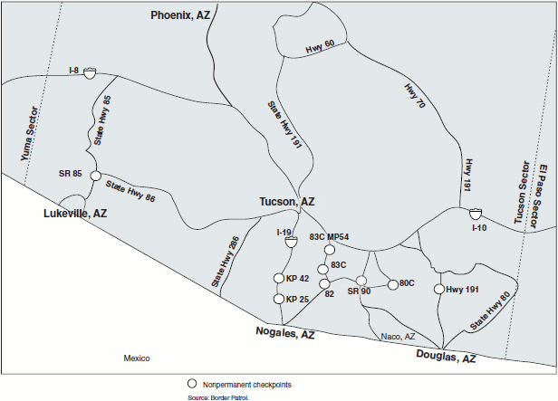 US internal border checkpoints in the Tucson sector